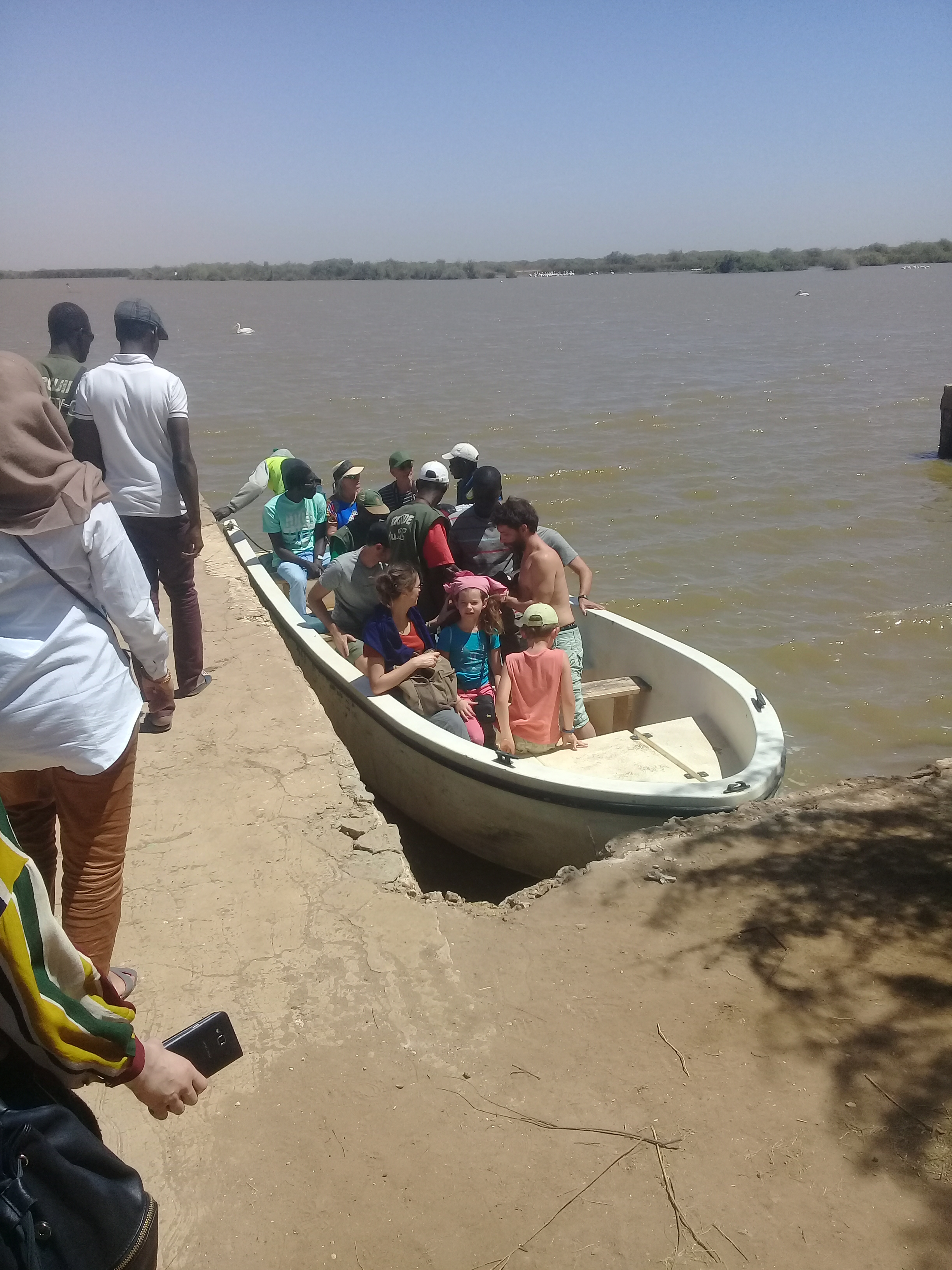 This is how we are transported over the park for seeing birds This is an image with the theme "Africa on the Move or Transport" from: Senegal